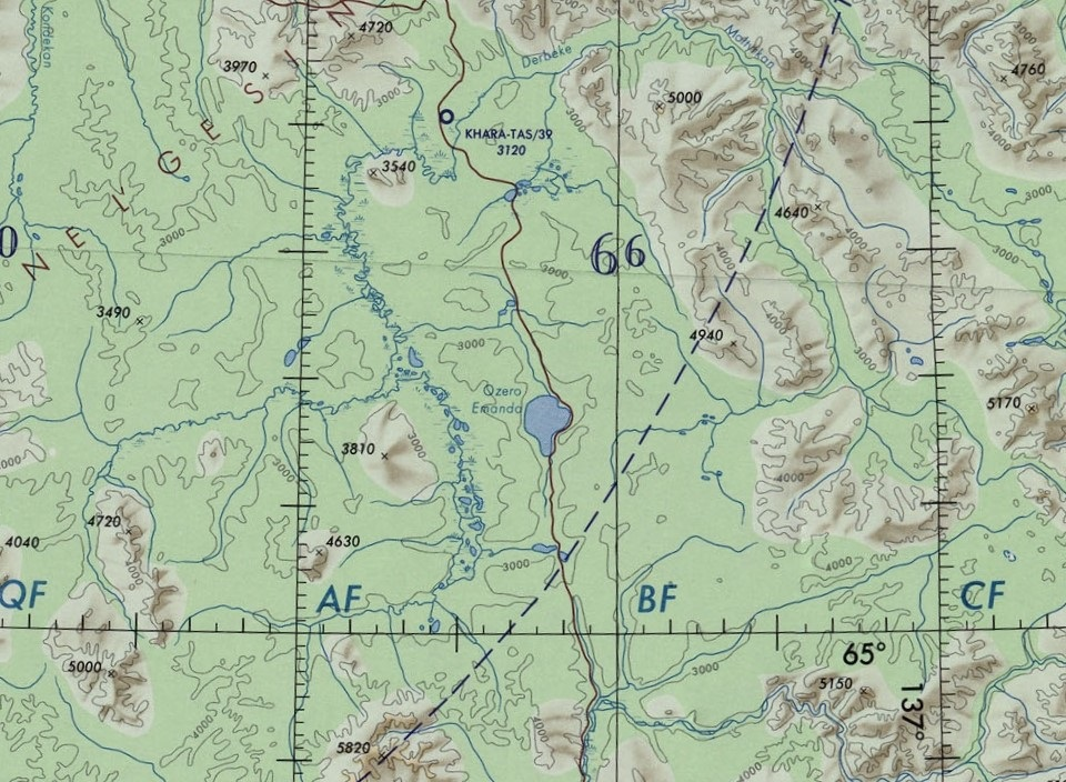 Lake Emanda, Tomponsky District, Yakutia, Russia